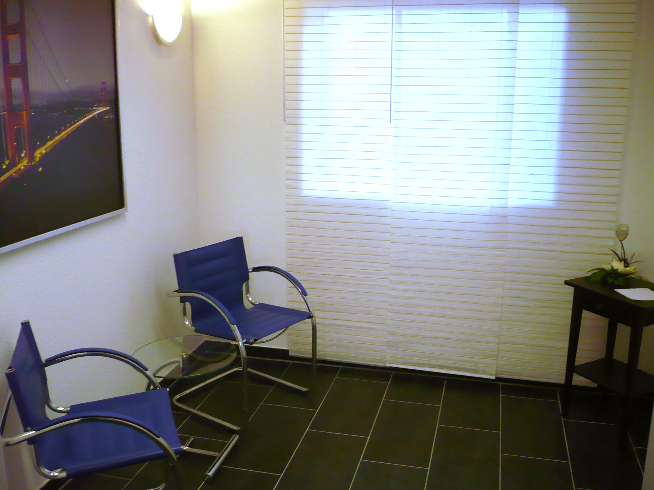 Inside of an animal crematory, here: ACREMA Tierkrematorium Erolzheim